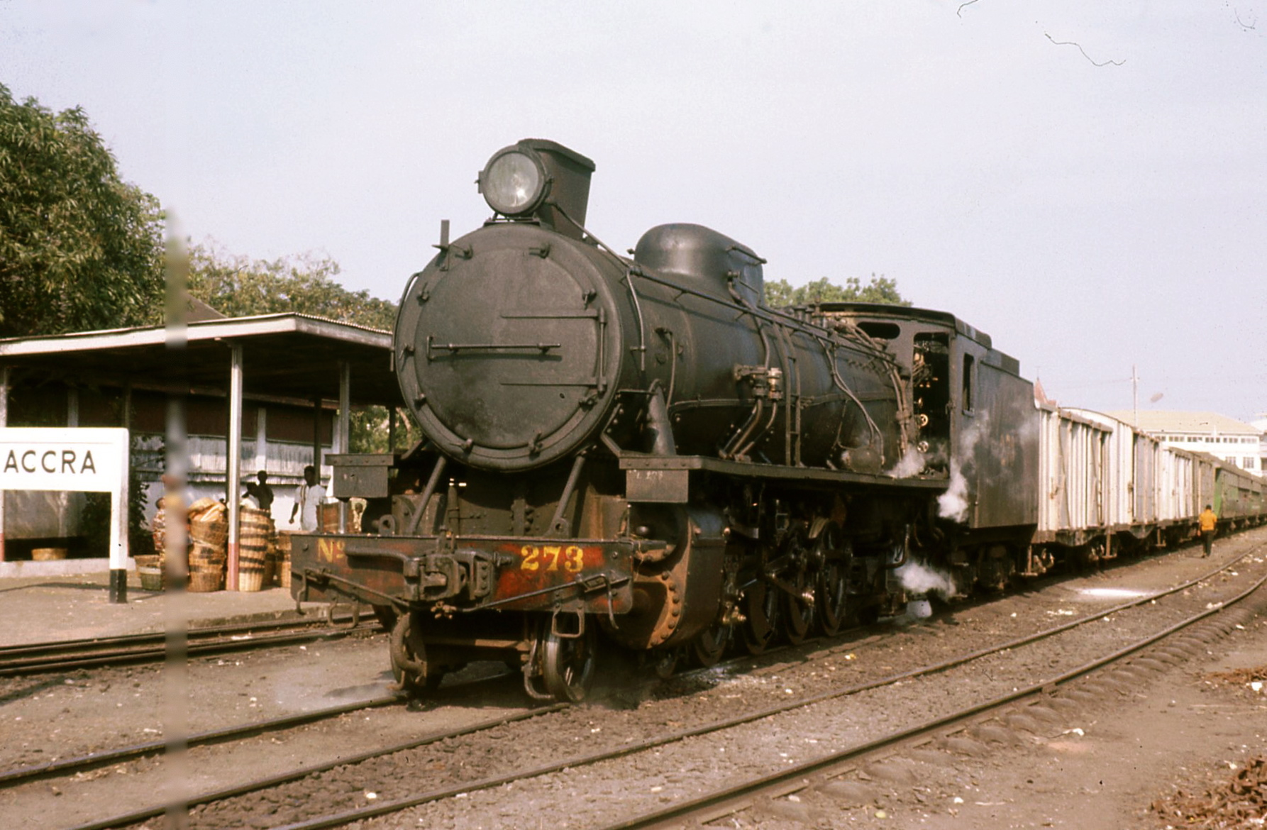 Mixed train with 4-8-2 at Accra station, Ghana